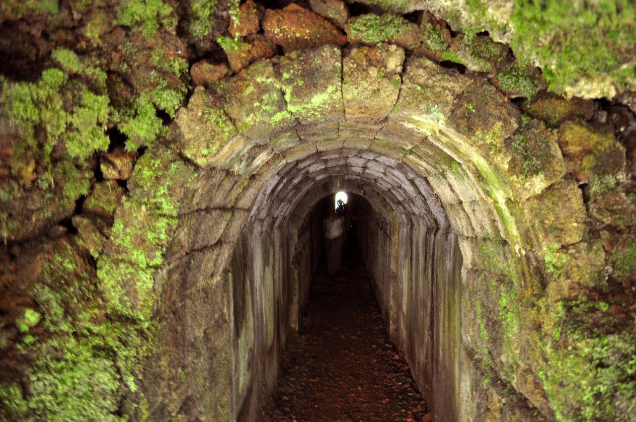 Access tunnel to the interior of a volcano, near the Levada walking trail